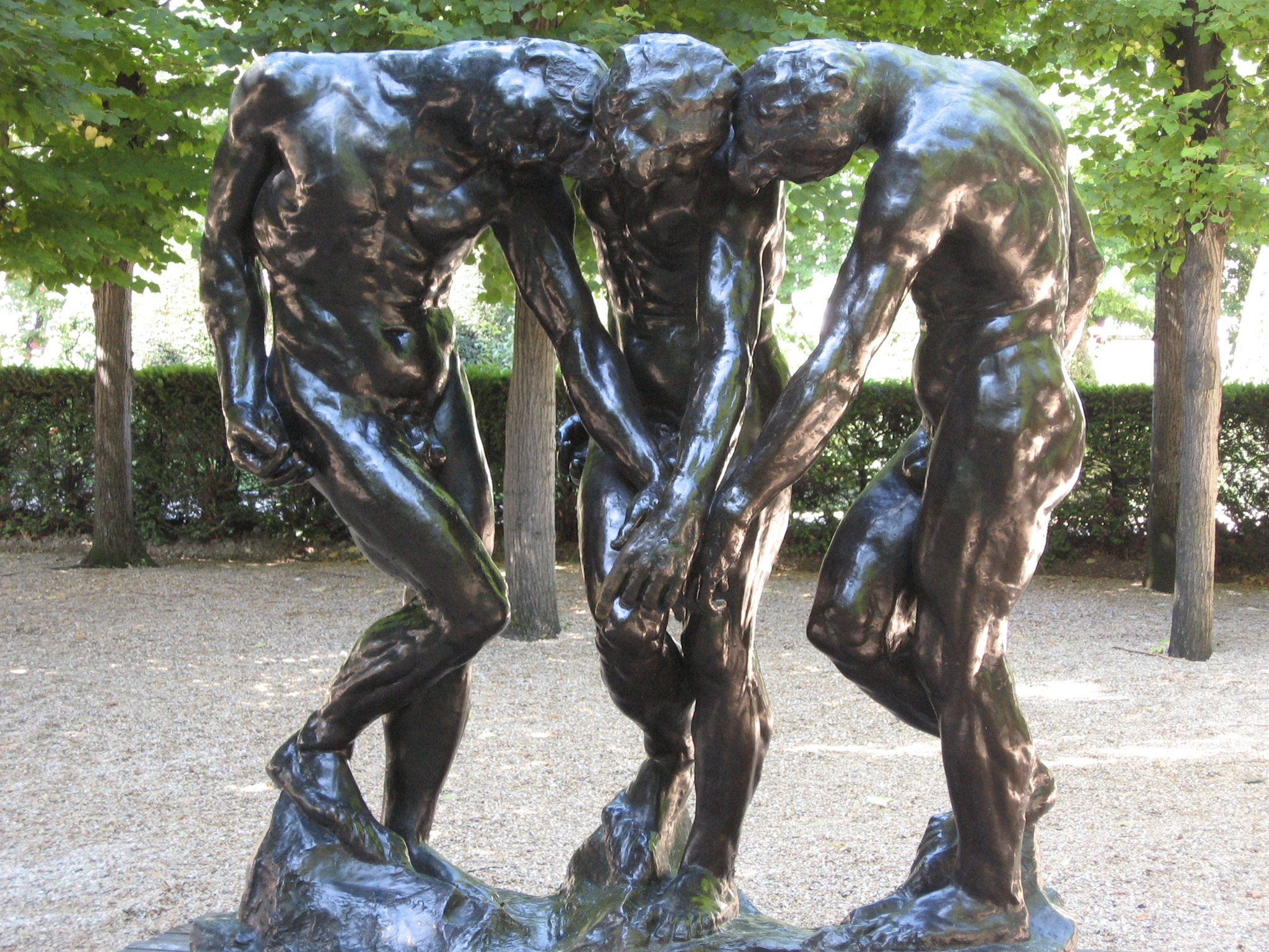 The Three Shades by Rodin